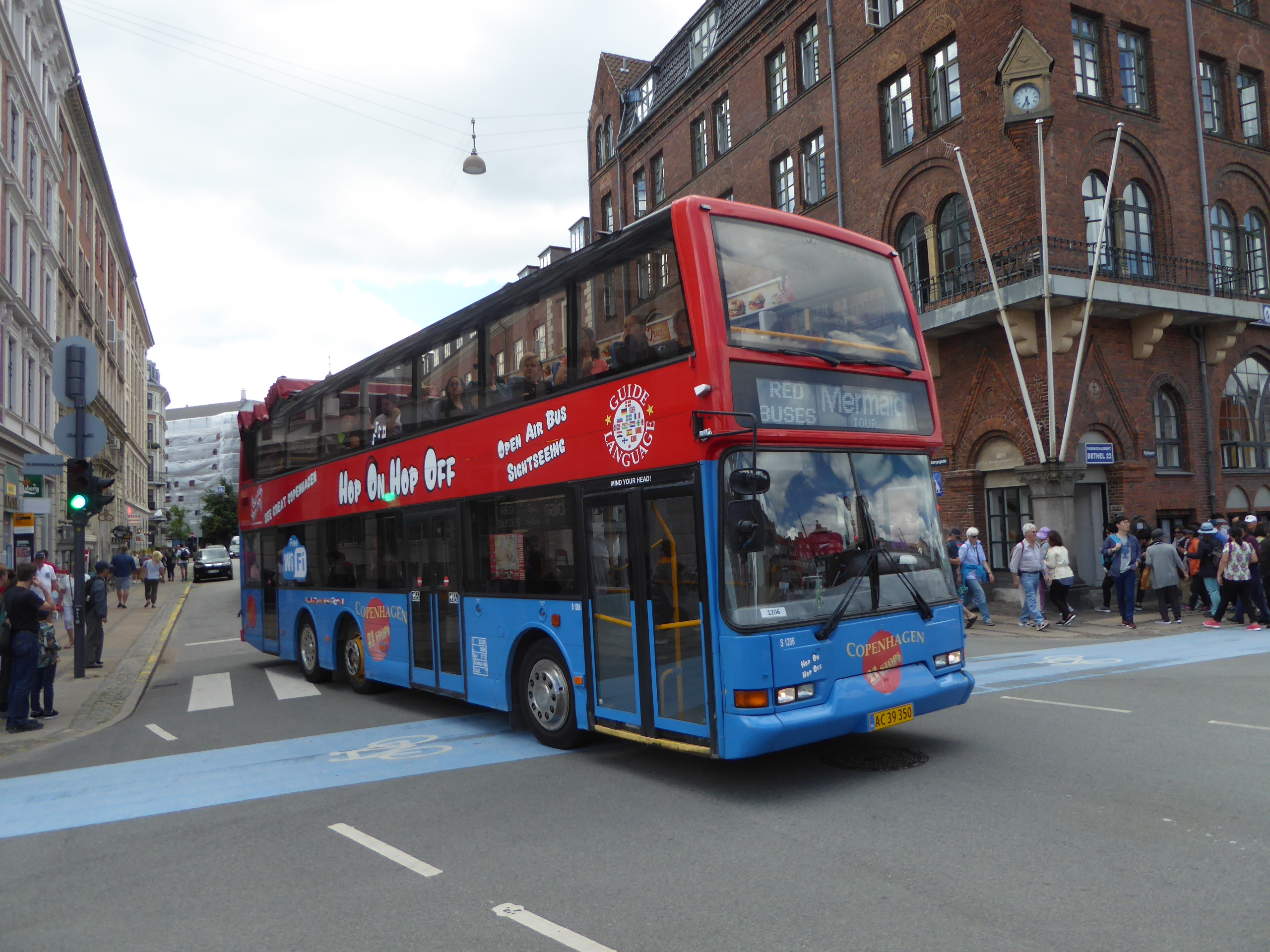 Sightseeing bus of RedBlue Bus Tours on Holbergsgade at Nyhavn in Indre By in Copenhagen.